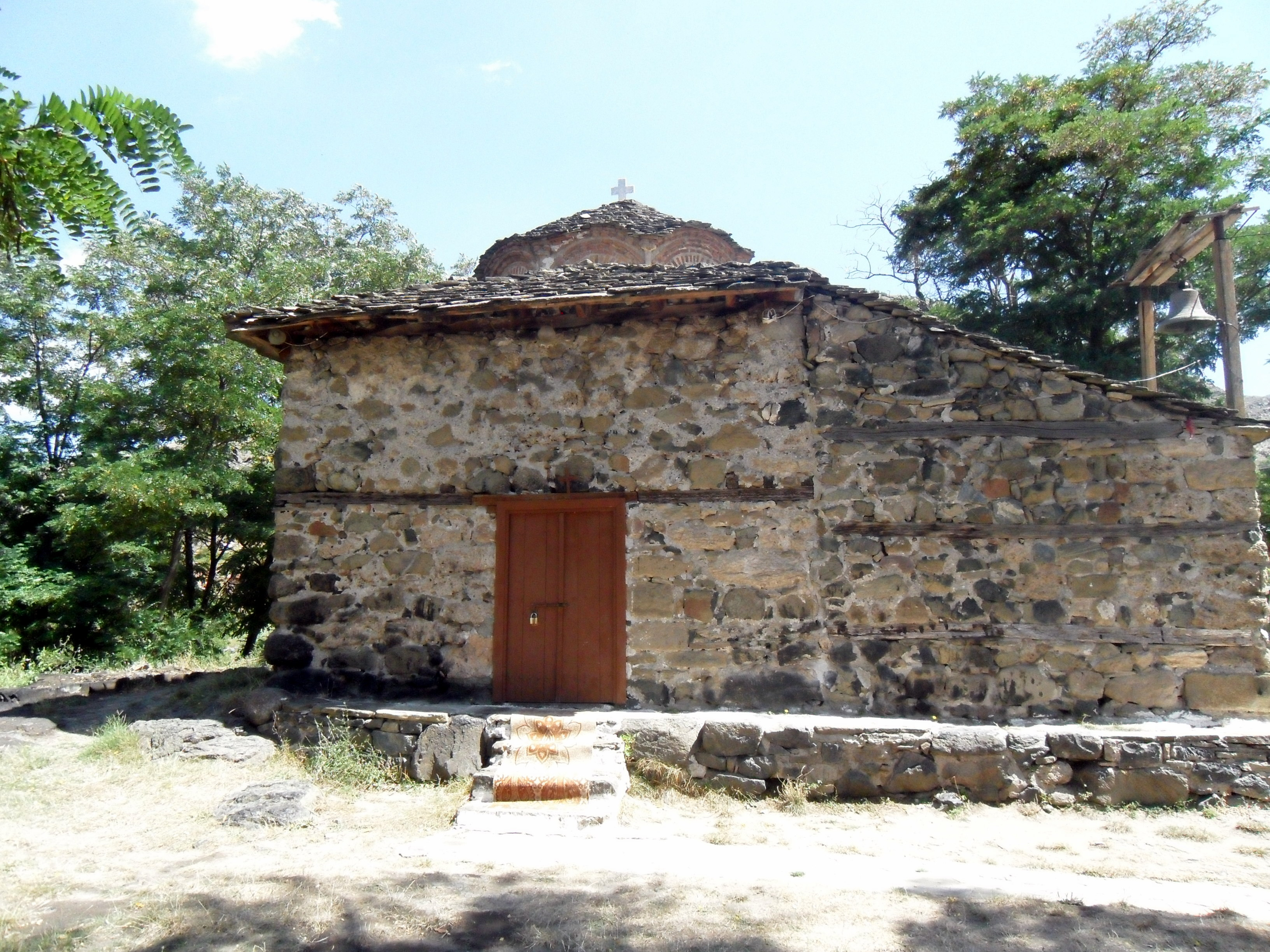 Church of Ristoz in Mborje